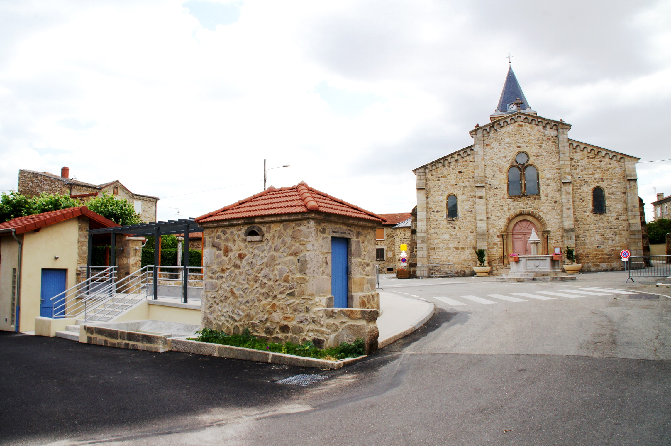 Peaugres détail